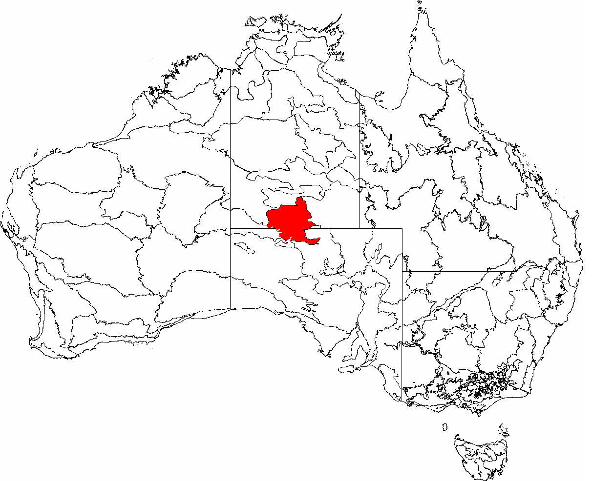 This is a map of the Interim Biogeographic Regionalisation of Australia (IBRA), with state boundaries overlaid. The Finke region is shown in red.